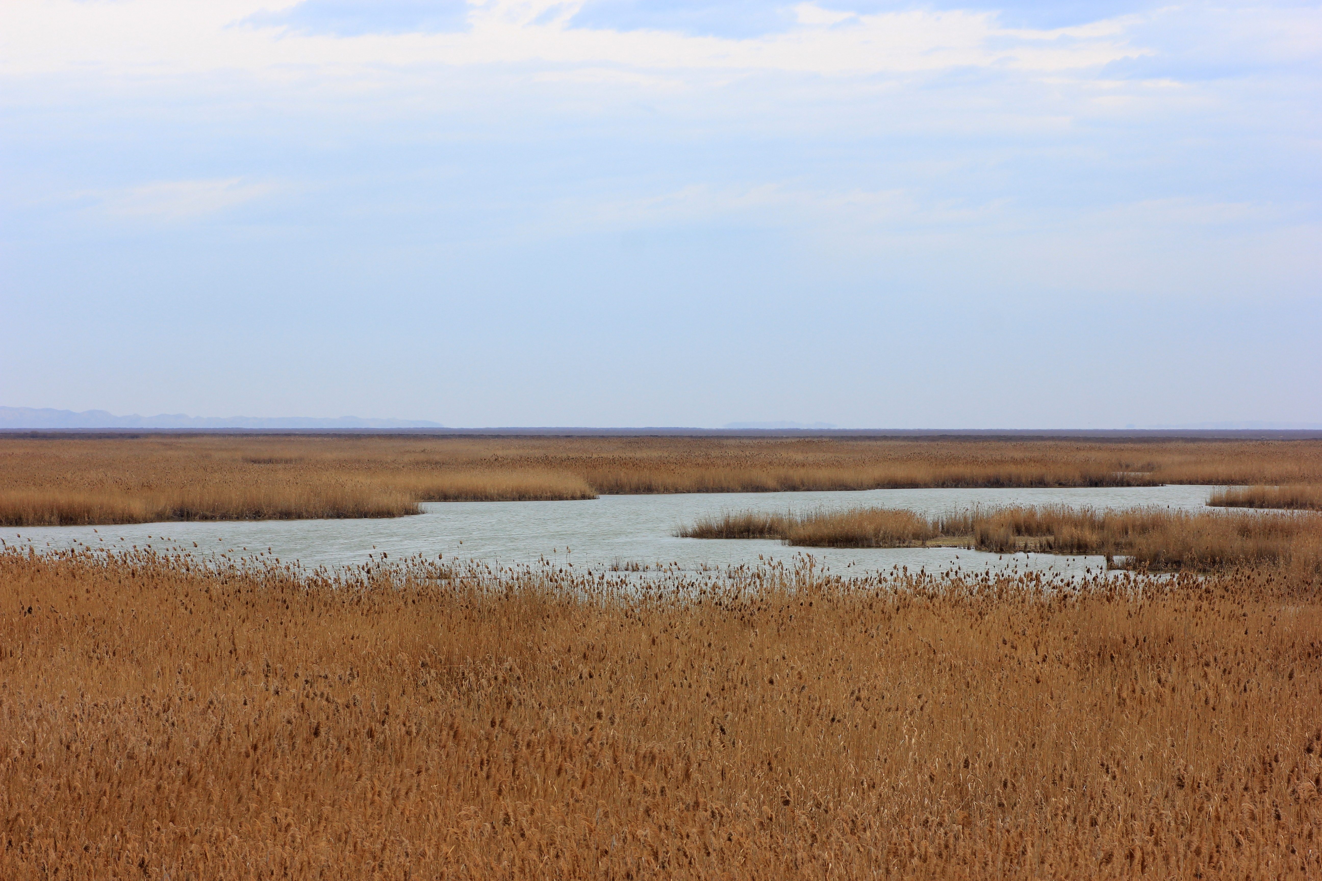 Vegetation at Shirvan National Park